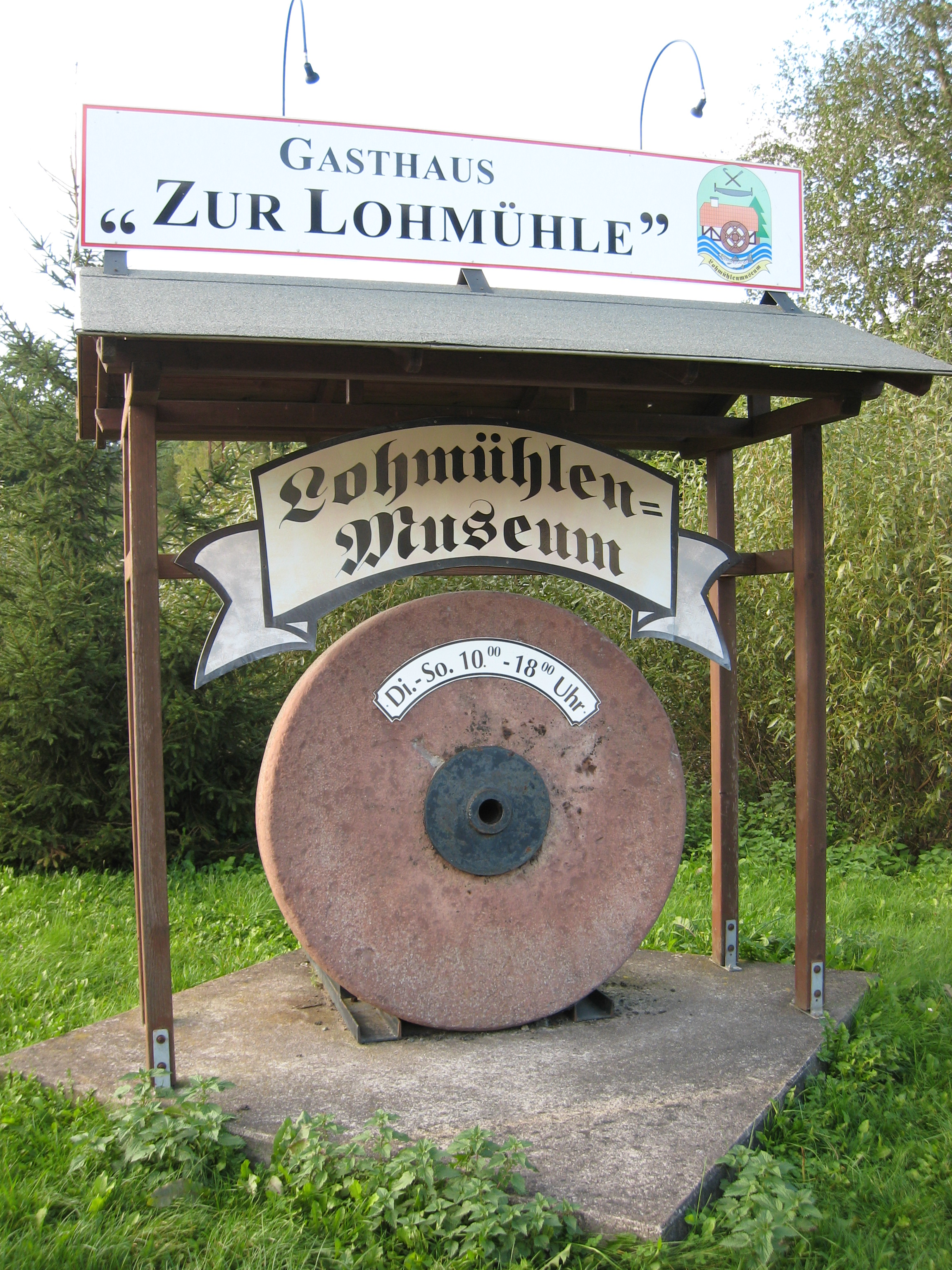 Lohmühle (Tambach-Dietharz) 1